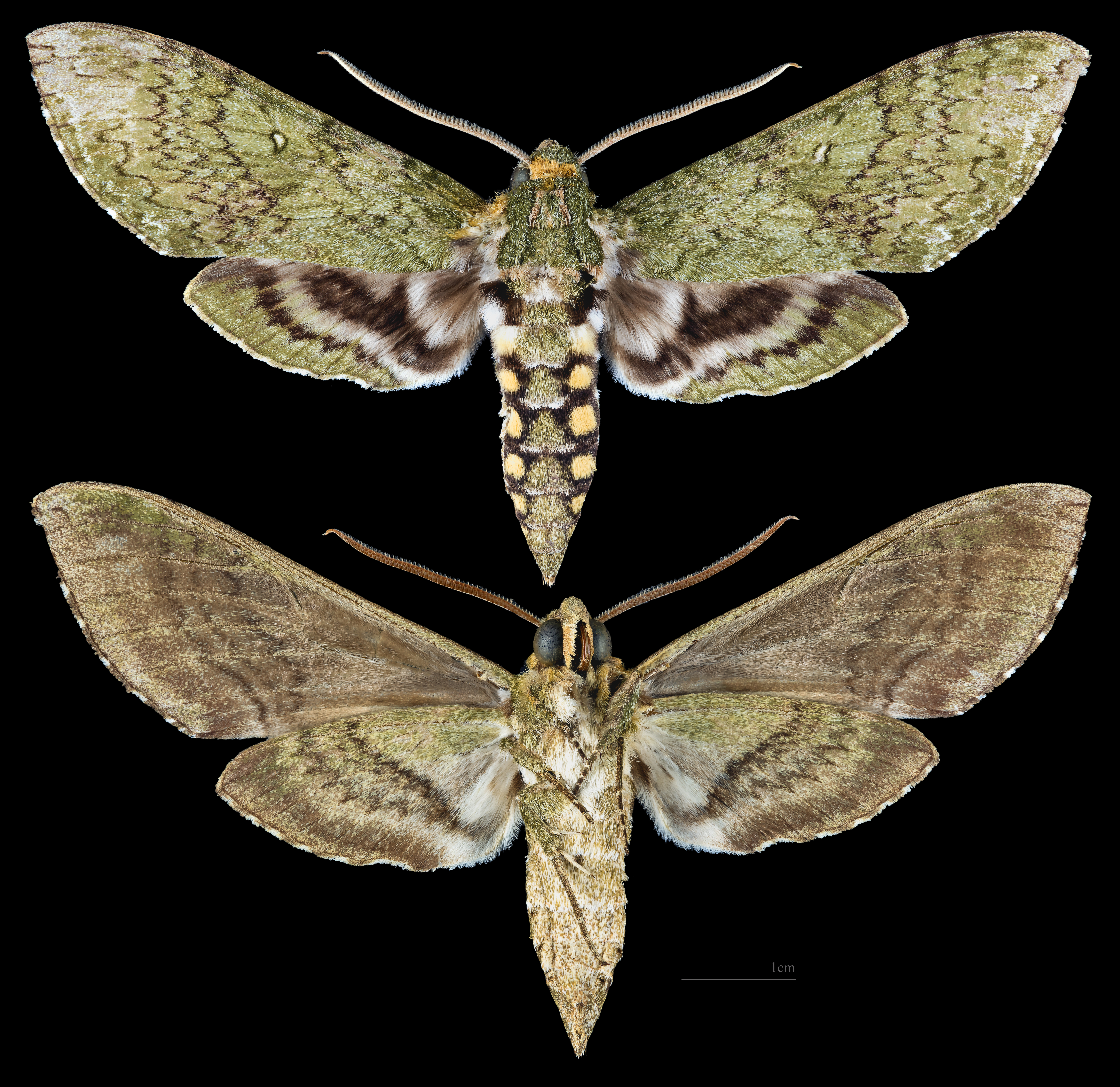 Manduca afflicta - Two views of same specimen Collection of the Mathematician Laurent Schwartz